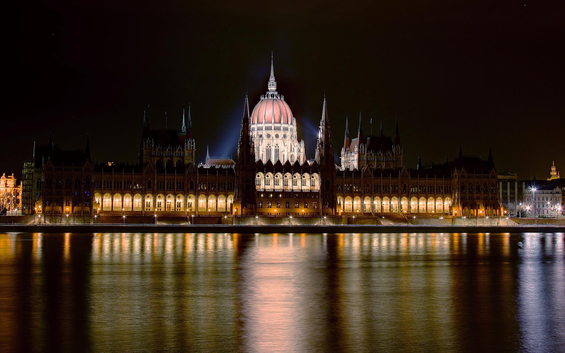 The Budapest Parliament by night - HDR image of 9 photos. Available for WUXGA wallpaper (1920×1200 pixels).